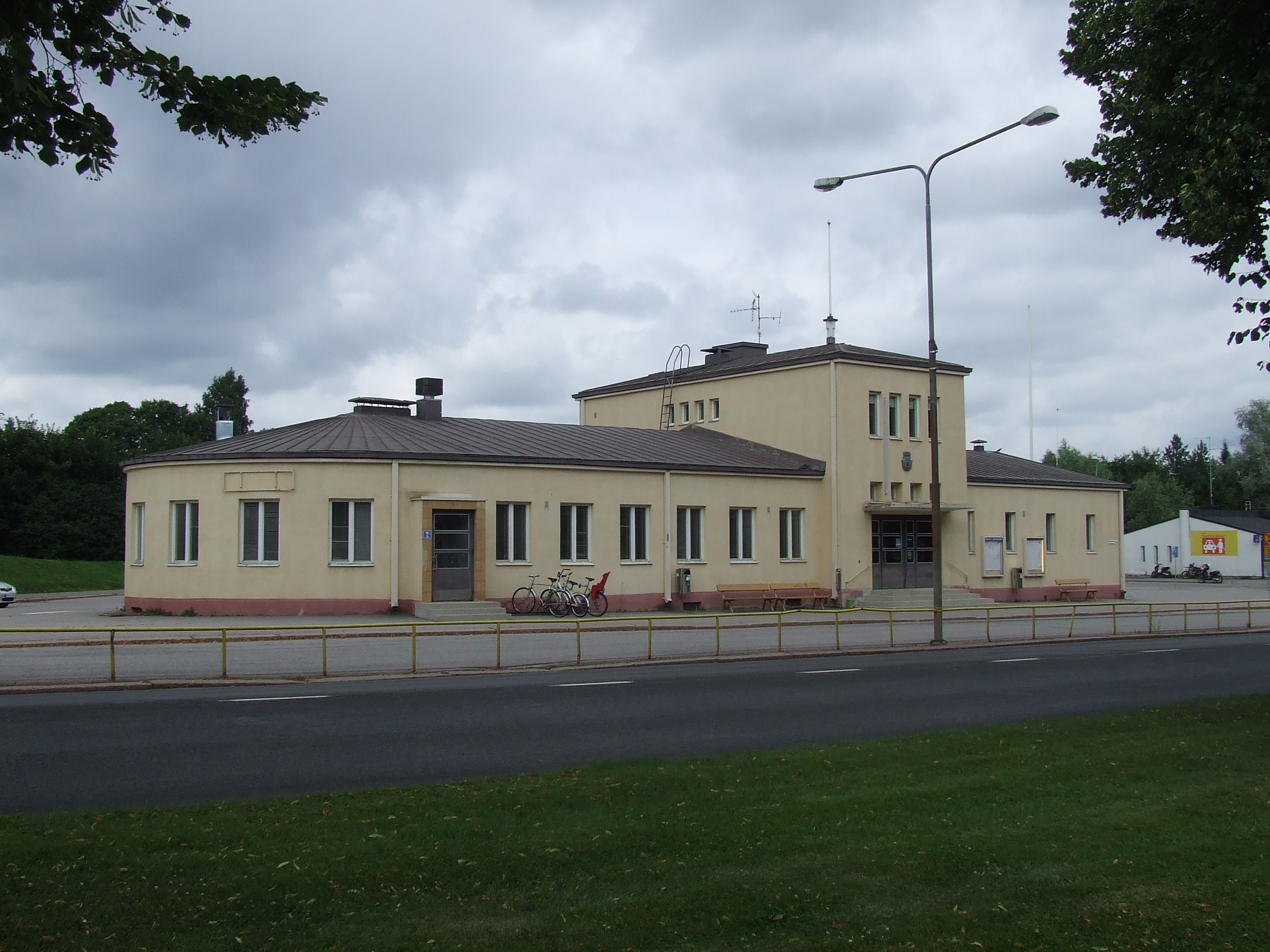 Loviisa bus station in Finland.